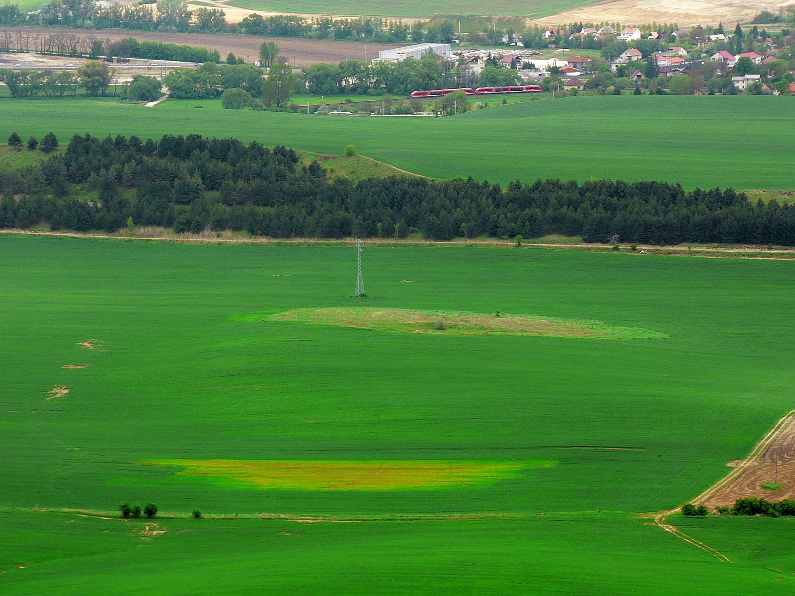 A Solymári-völgy szarvasi részlete a Szarvas-hegy felől